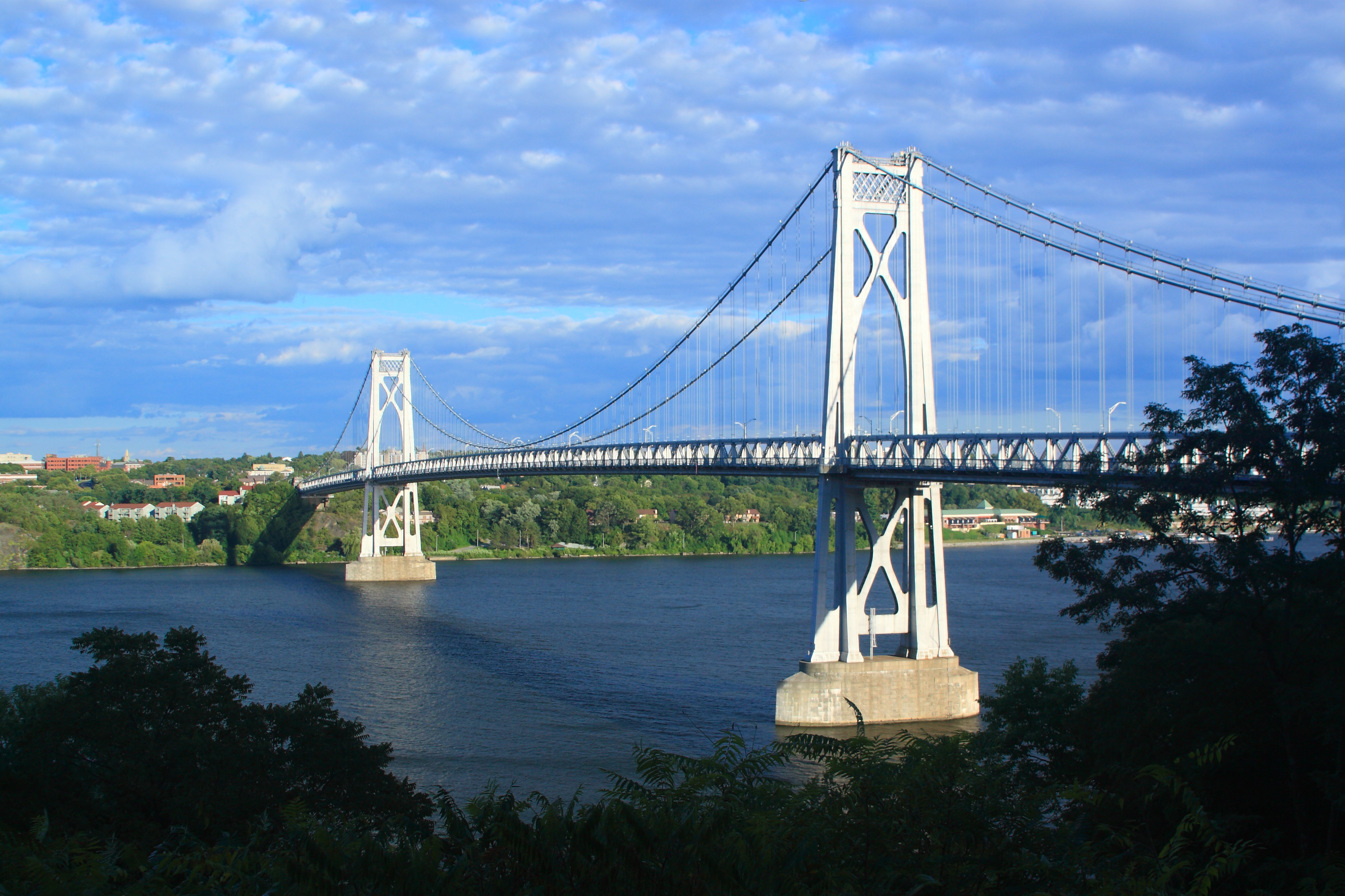 Mid-Hudson Bridge in late afternoon light